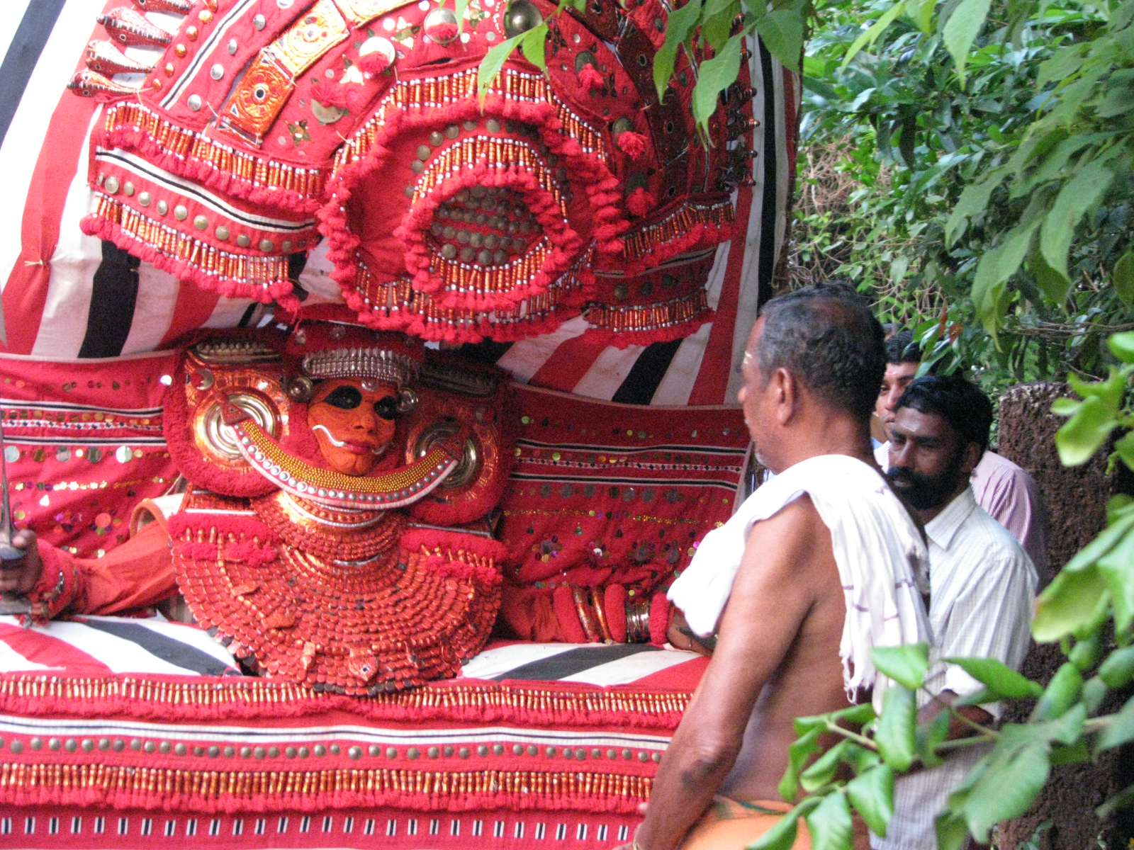 നീലിയാർ ഭഗവതിത്തെയ്യം